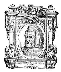 Illustratio from "Le Vite" by Giorgio Vasari, edition of 1568. For the artist portrayed see filename